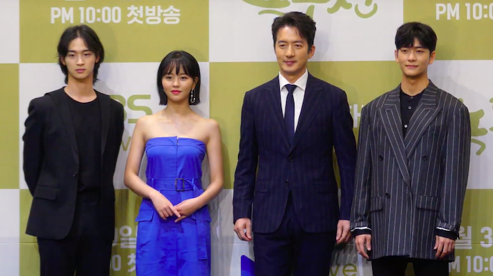 The main casts of The Tale of Nokdu at the press conference on September 30, 2019.